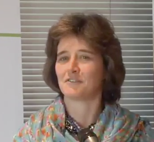 Nicky Newton King was interviewed by media (including SABC) on the CIPC's special services offering to JSE-listed entities and their subsidiaries in 2014 (Published under CC-BY 3.0)